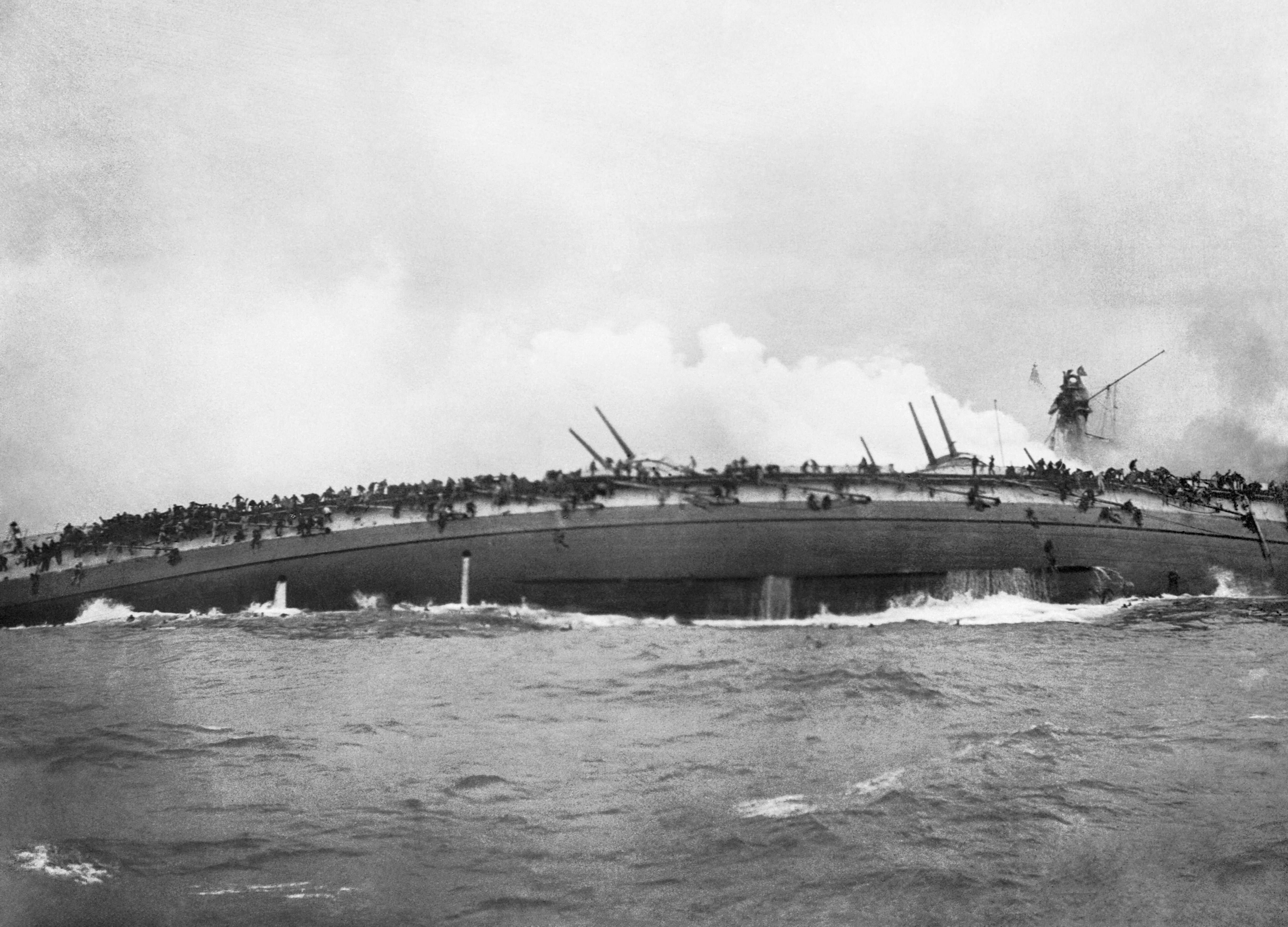 The german armoured cruiser SMS Blücher sinks after receiving multiple hits from British warships at the Battle of Dogger Bank on 25 January 1915.